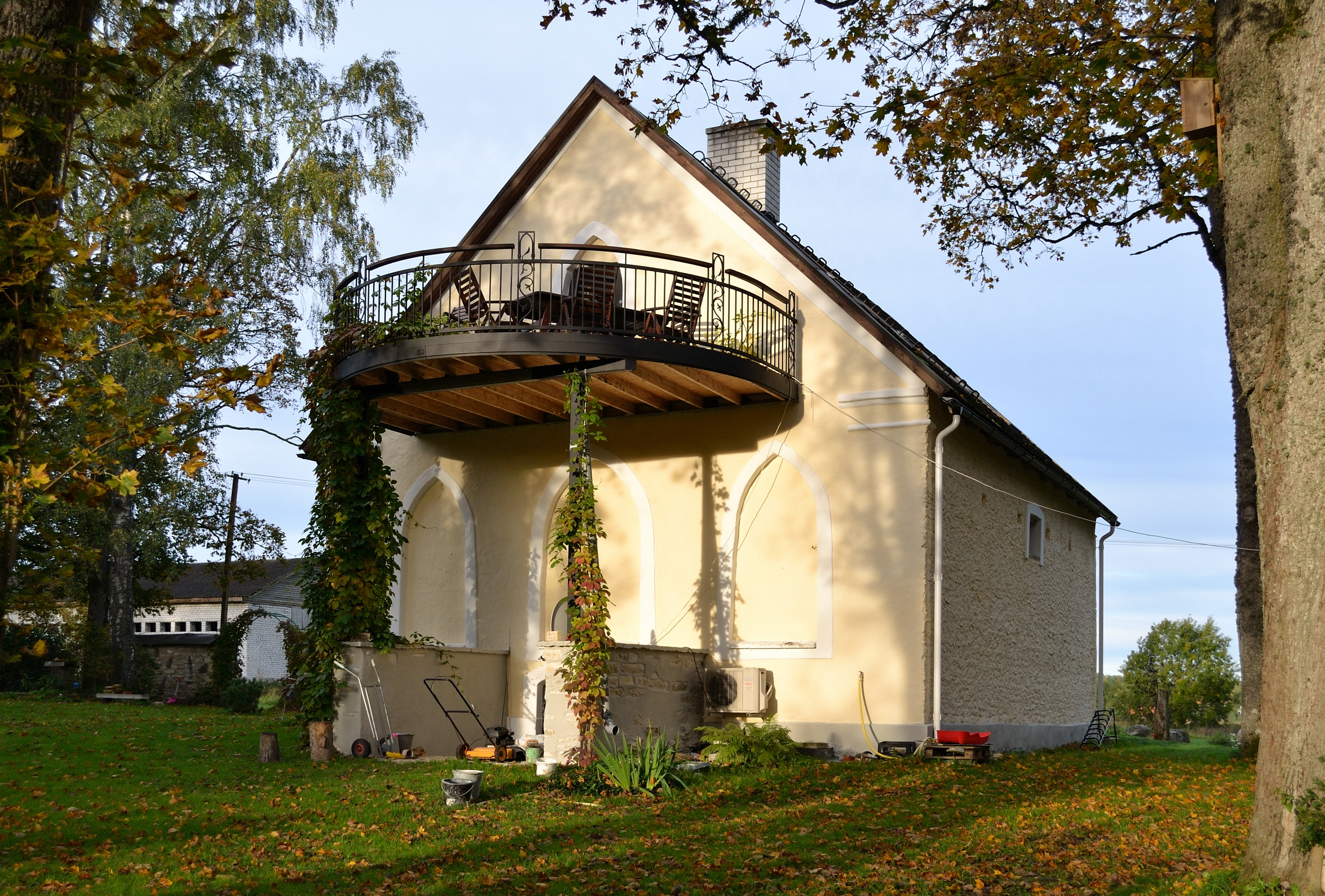 Keava manor granary-cellar This photograph was taken with a Nikon D3100